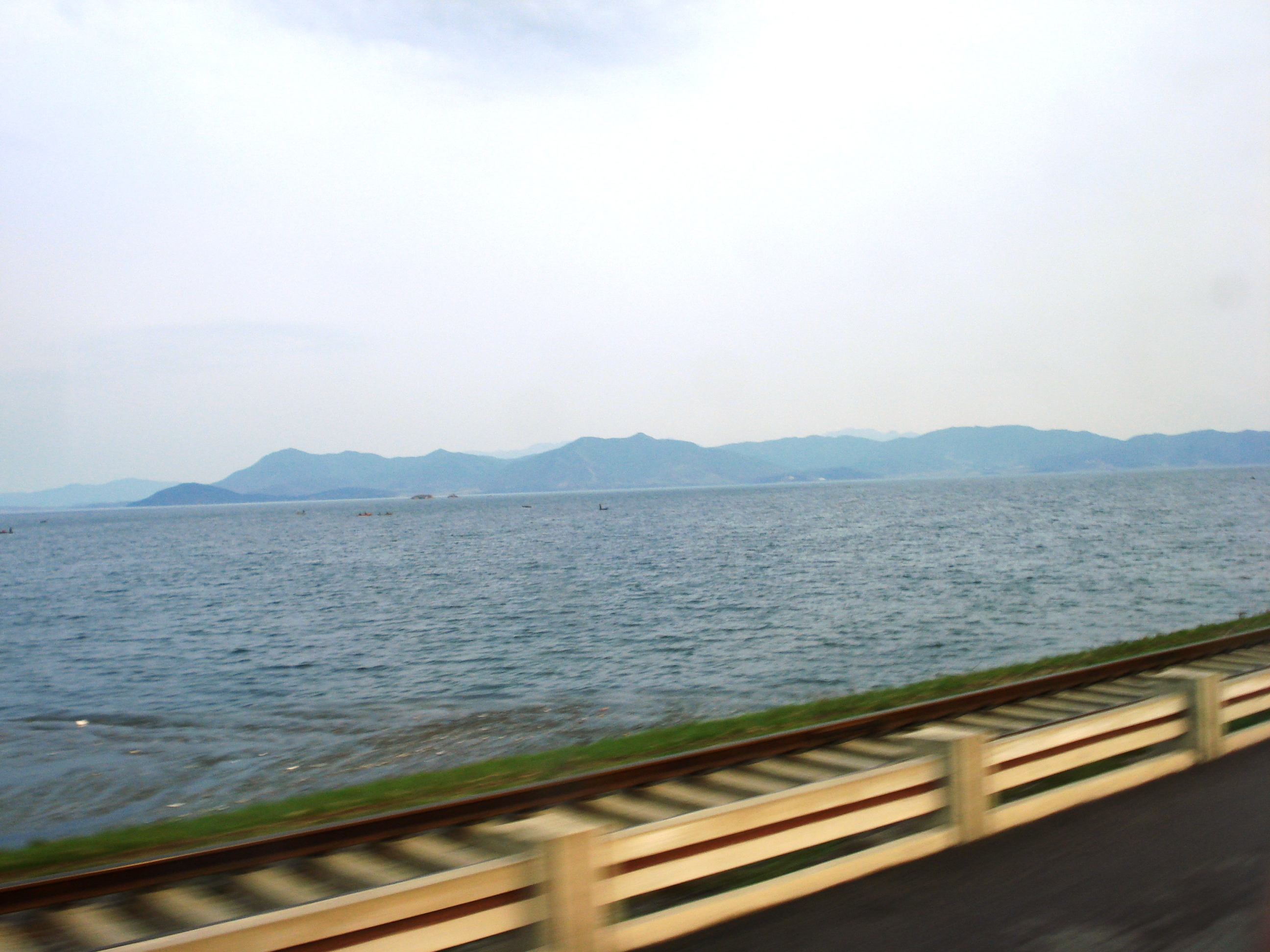 Nampho